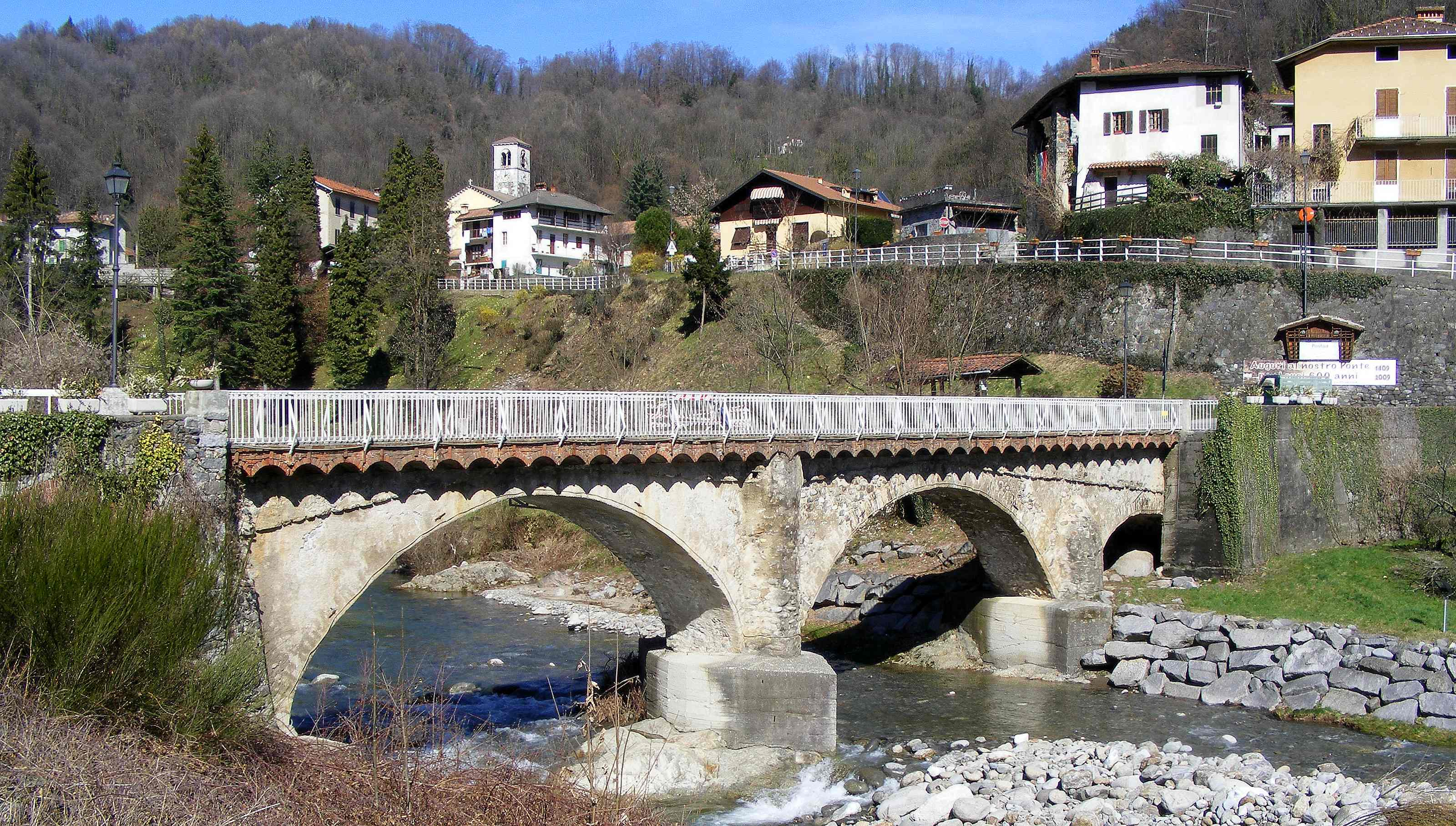 Postua (VC, Italy): panorama and old bridge on the Strona